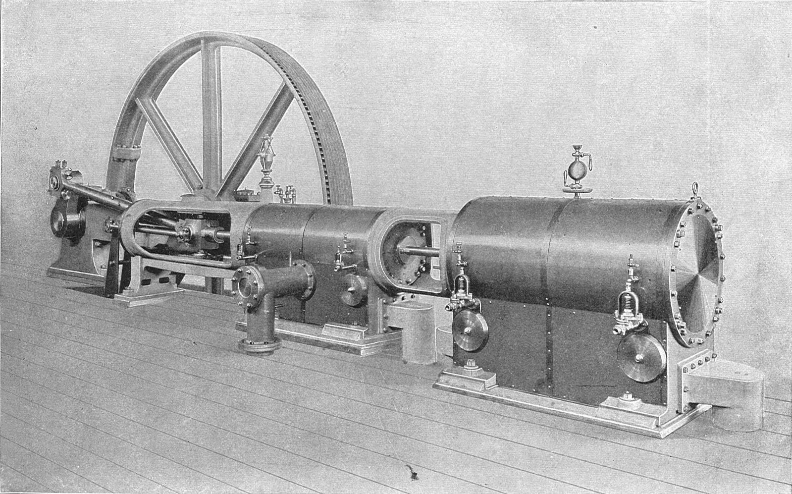 Adamson tandem compound engine (Rankin Kennedy, Electrical Installations, Vol III, 1903).jpg